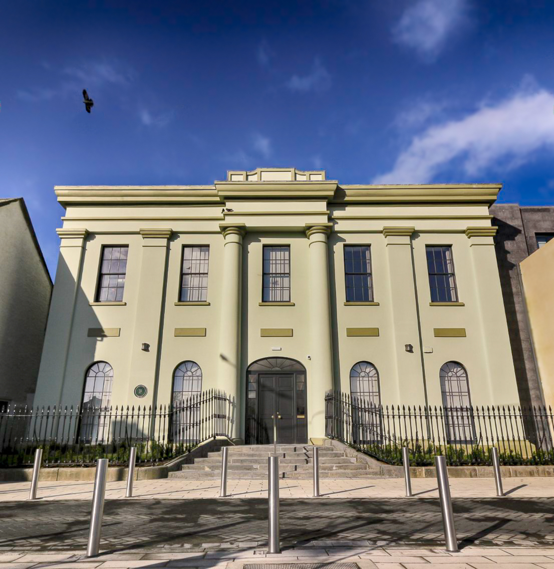 Carrick-on-Suir Town Hall. Erected 1840.